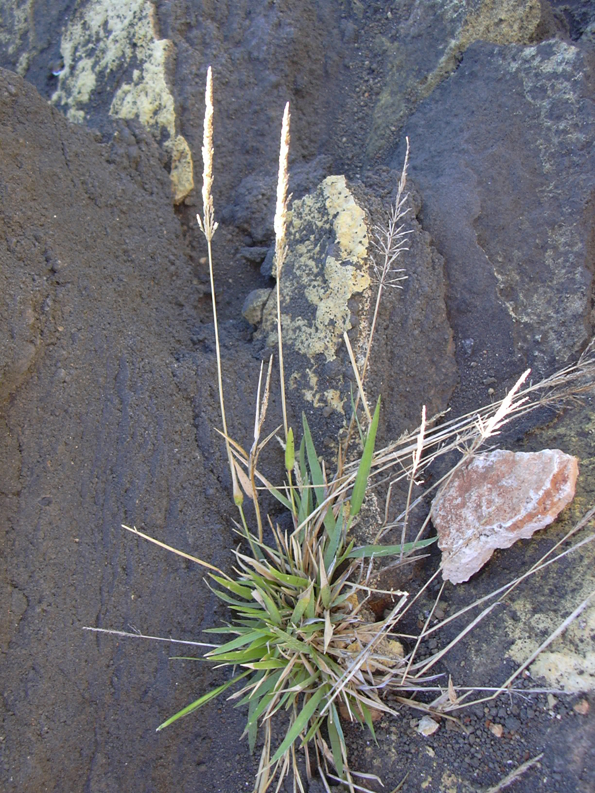 Sporobolus pyramidatus (habit). Location: Oahu, Koko Head lookout